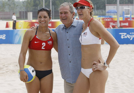 President George W. Bush stands with the U.S. Women's Beach Volleyball team of Misty May-Treanor, left, and Kerri Walsh at the Chaoyang Park practice courts Saturday, Aug. 9, 2008, before their matches at the 2008 Summer Olympics in Beijing.